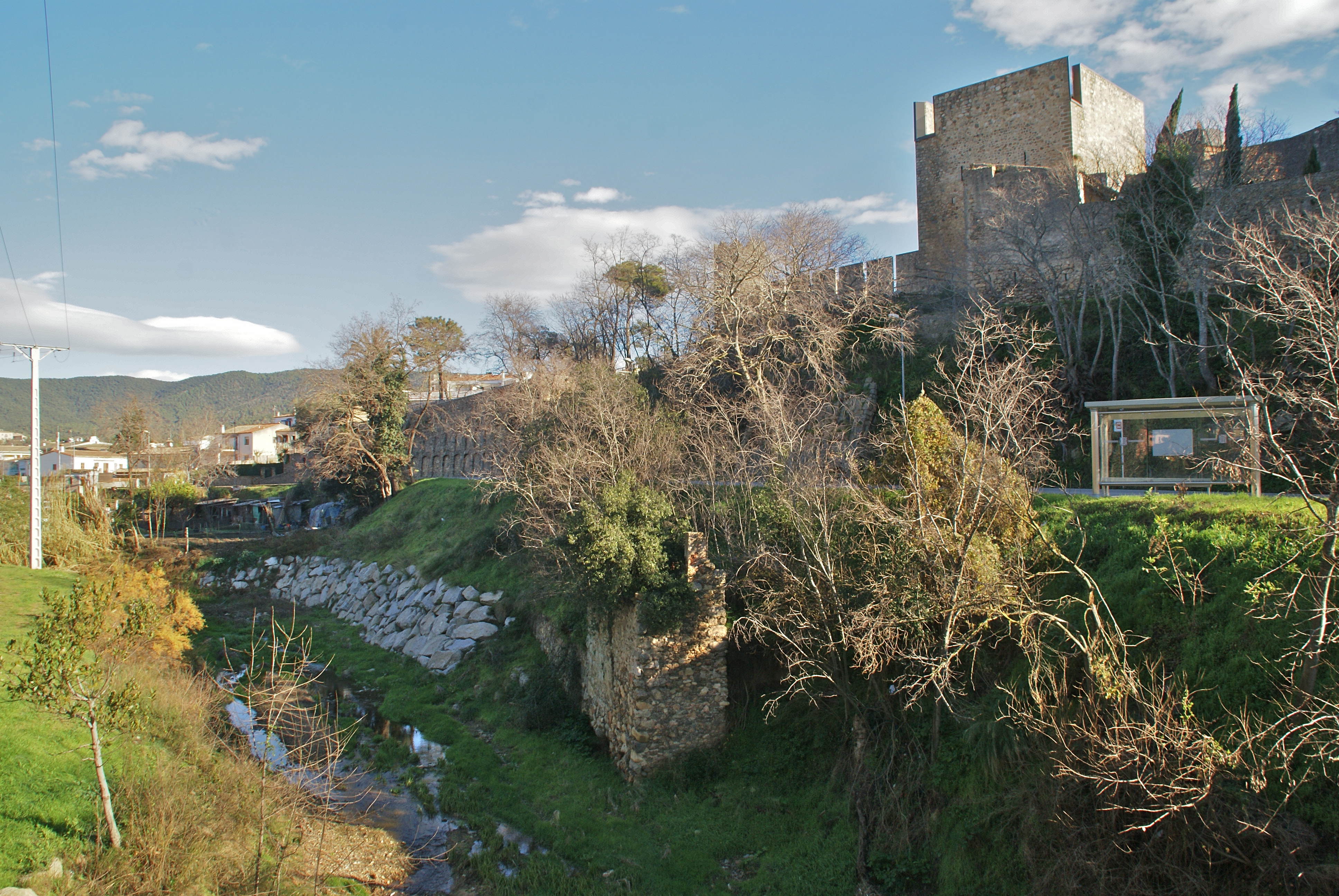 Calonge, Catalonia: The river Rifred and the castle